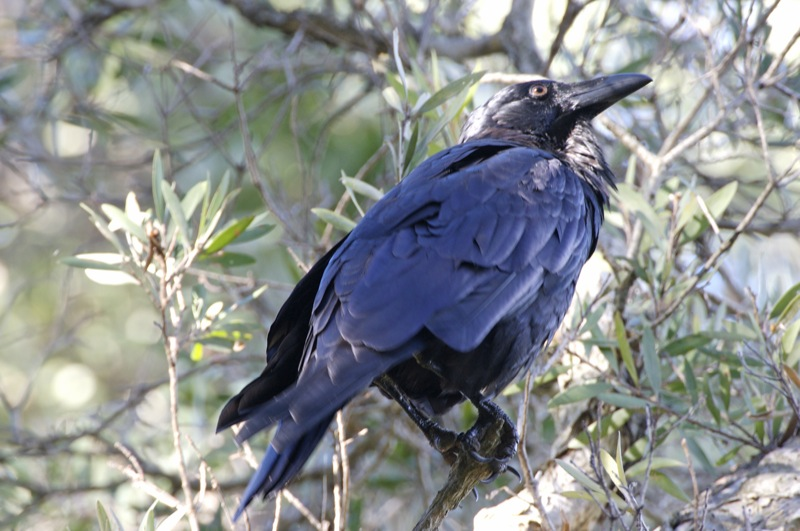 Corvus coronoides Nominate race Corvus coronoides coronoides Centiennal Park, Sydney, NSW, Australia 12th. February 2008 690V2386